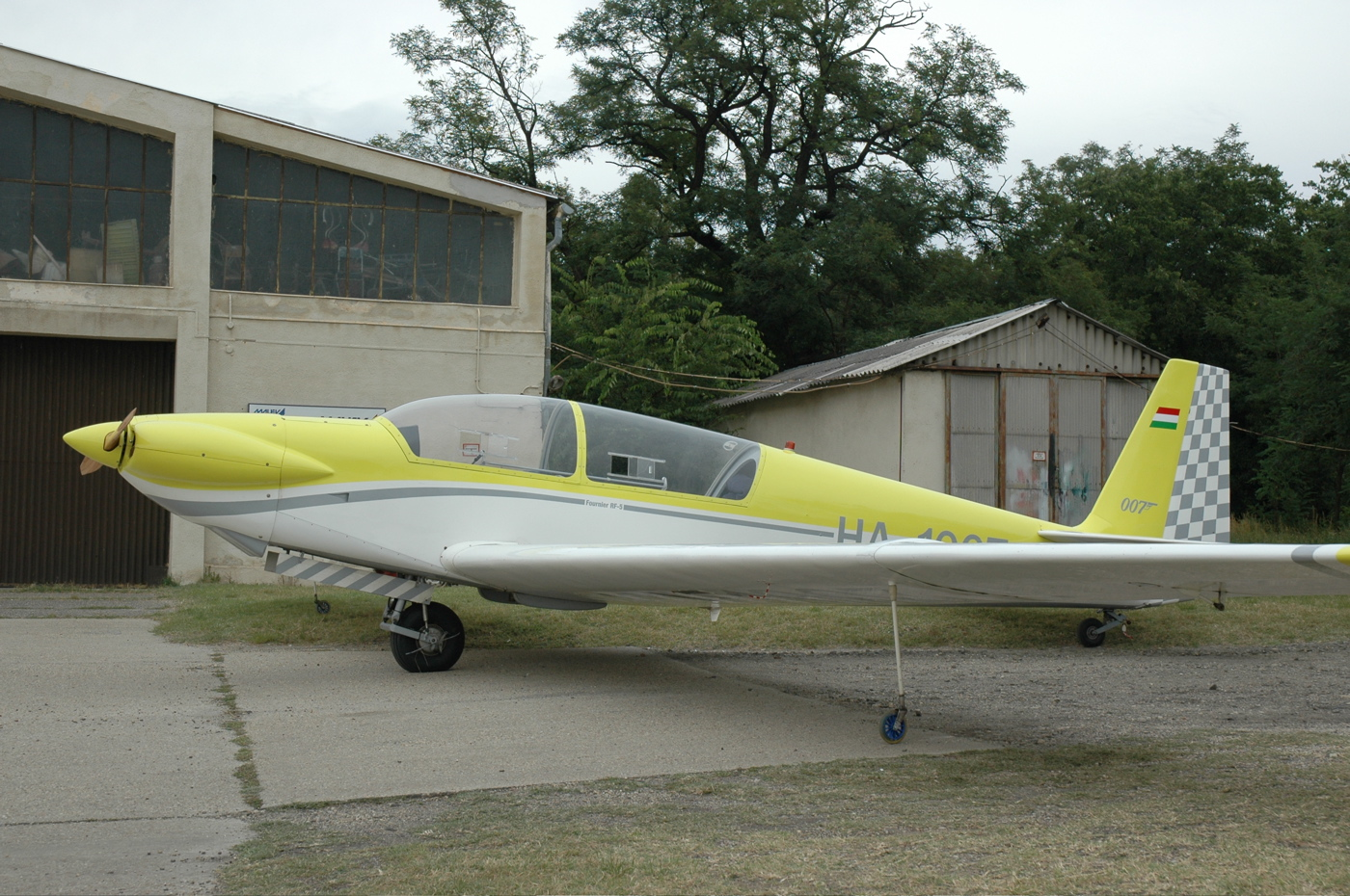 Fournier RF-5 motor glider (reg. HA-1007) at Dunakeszi airport (Hungary). Crashed on 28 October, 2008 at the Hármashatárhegy airfield.